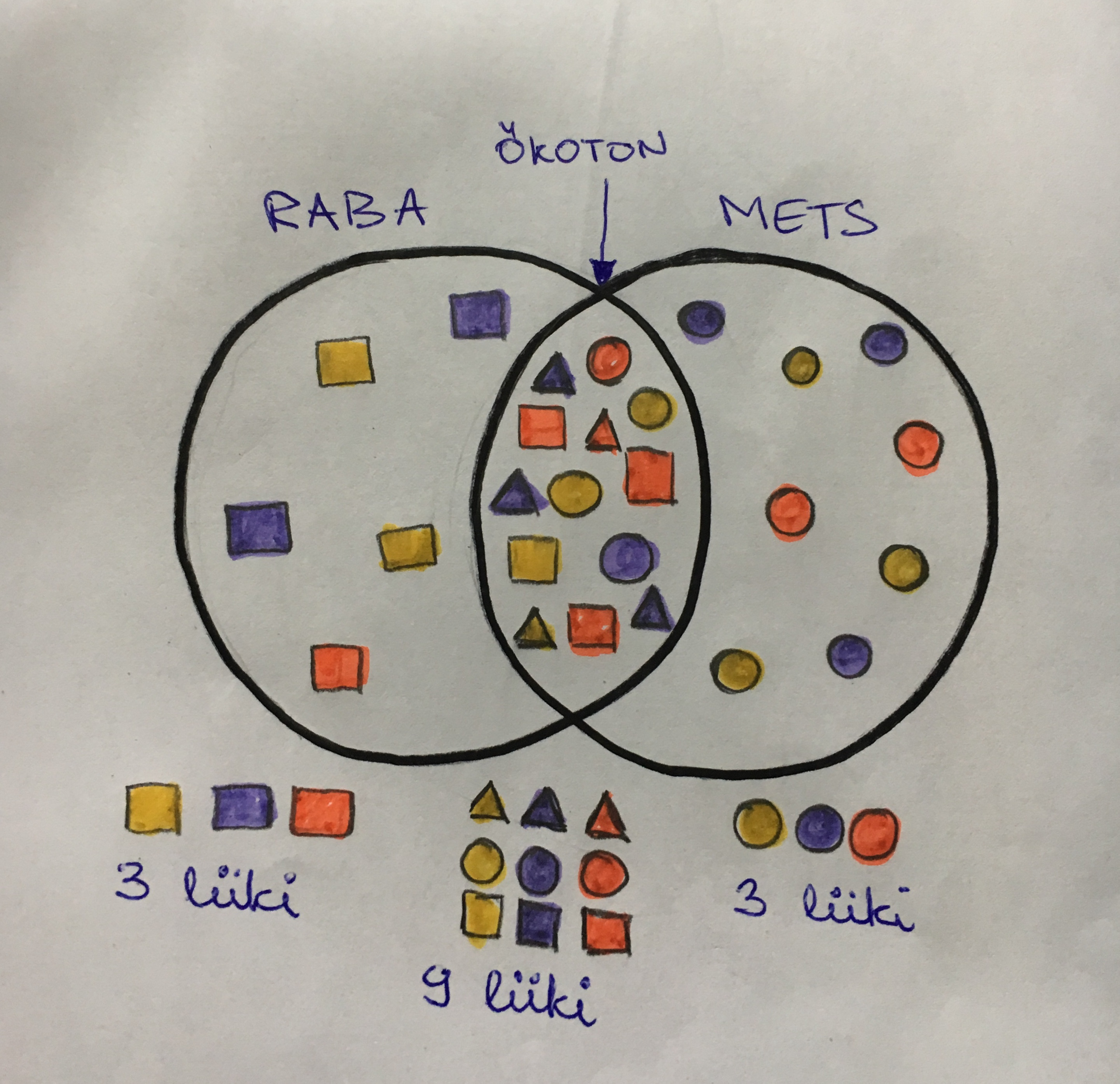 Edge effect